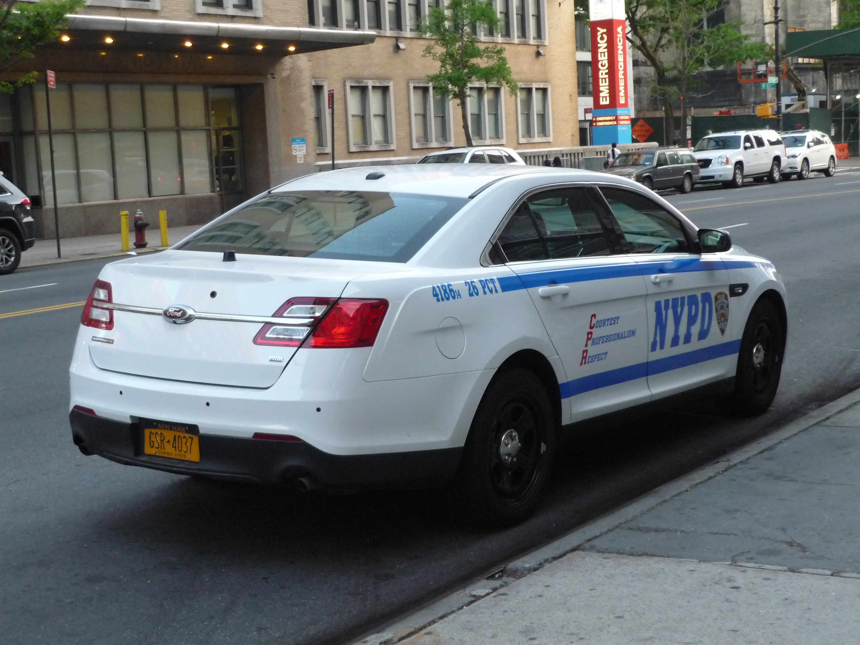 One of many new PIs slowly turning the venerable Crown Victoria into a memory. -- Jason Lawrence